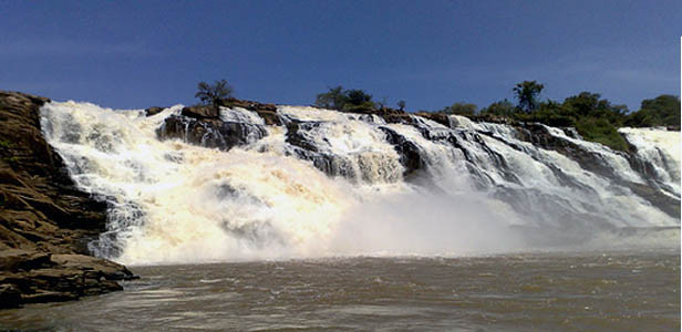 Nice view of the waterfall